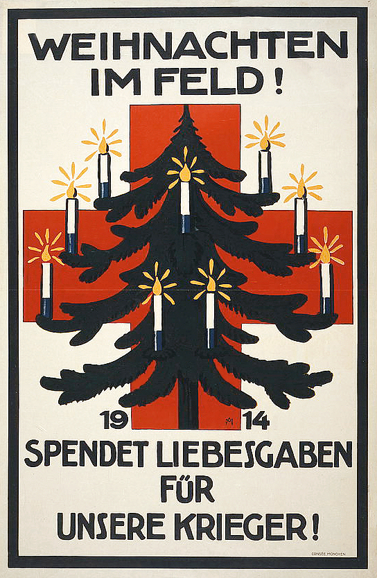 Title: Weihnachten im Feld! 1914. Spendet Liebesgaben für unsere Krieger! Abstract: Poster shows a Christmas tree decorated with candles in front of a red cross. Text: Christmas in the field! 1914. Donate gifts of love for our warriors! Physical description: 1 print (poster) : lithograph, color ; 109 x 71 cm. Notes: Signed with the artist's monogram.; Purchase; Galerie XX; DLC/PP-1972:179. DLC; Title from item.; AM.